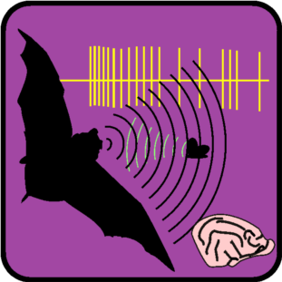 Echolocation in bats is one model system of Neuroethology: the neurobiology of natural behavior